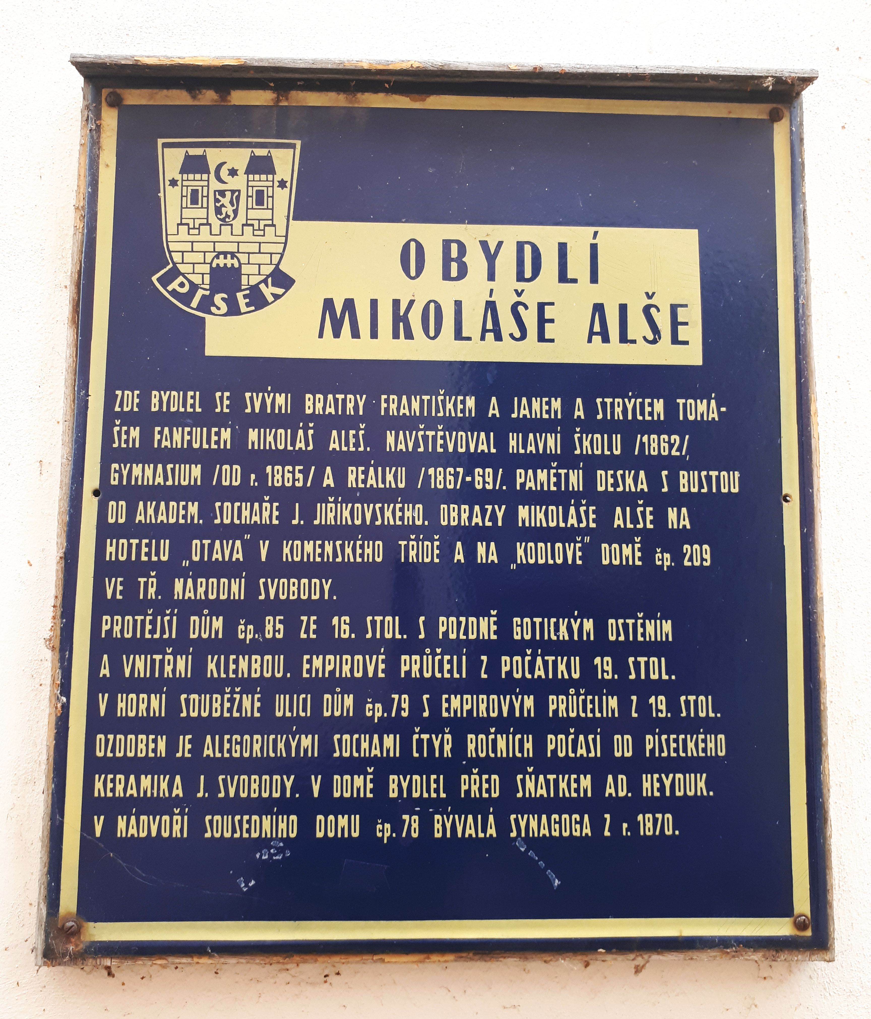 Information table in Písek (CZ) on a building at the corner of Masné krámy street / Ningrova street.